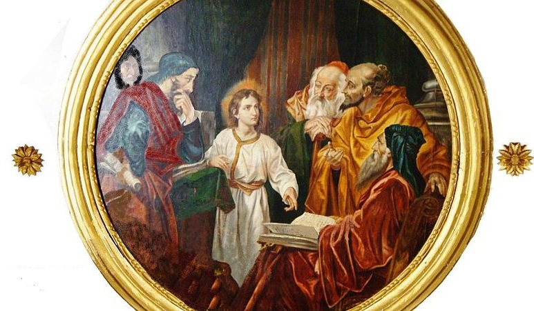 Meeting the rabbins by Spyros Gazis